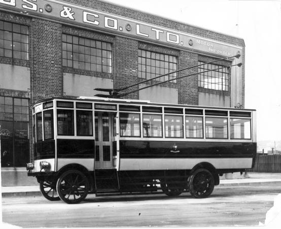 Wellington's first Trackless Tram (an AEC 602 trolleybus) outside Inglis Bros. It had a locally built body on an AEC 602 chassis.